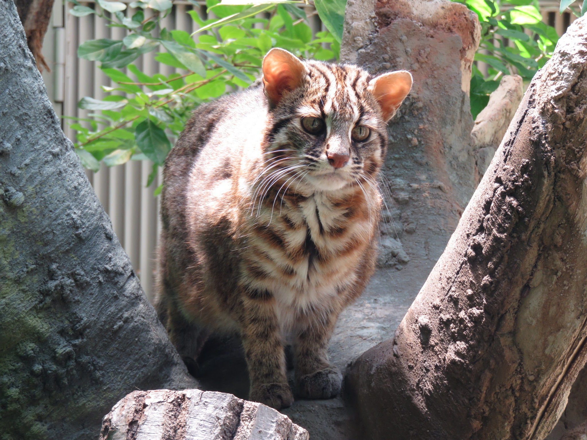 Prionailurus bengalensis euptilurus in Higashiyama Zoo